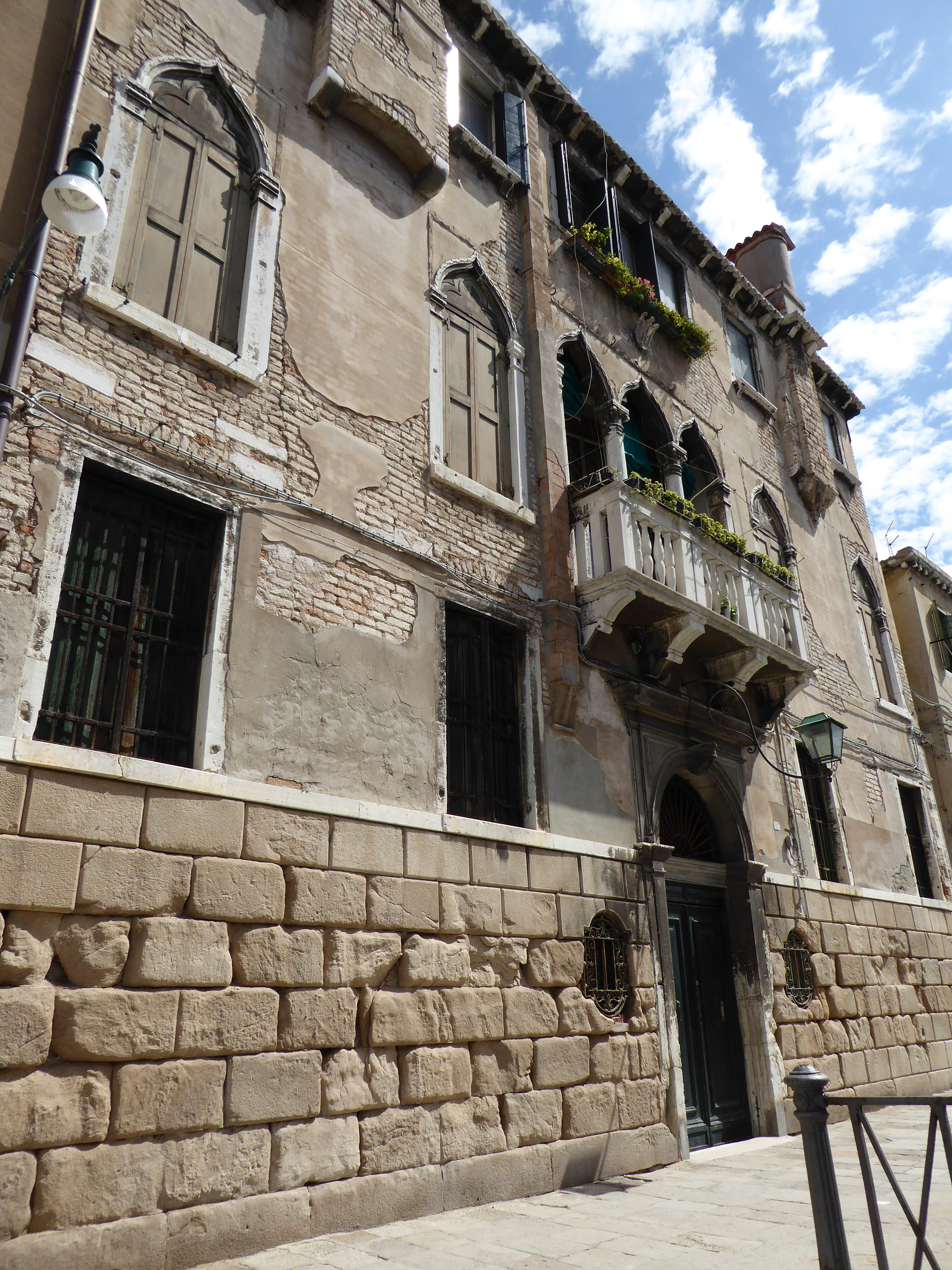 along rio della sensa